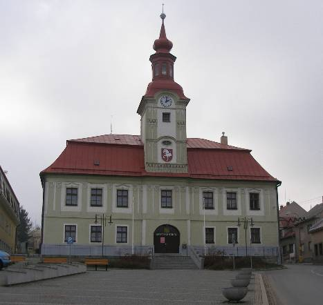 Town hall in Hlinsko, Czech Republic